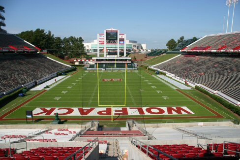 Carter-Finley Stadium Category:North Carolina State University Images